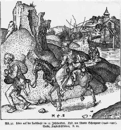 Yeniche people, 15th century engraving by Martin Schongauer